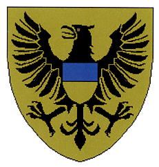 Coat of arms of Wullersdorf, Lower Austria